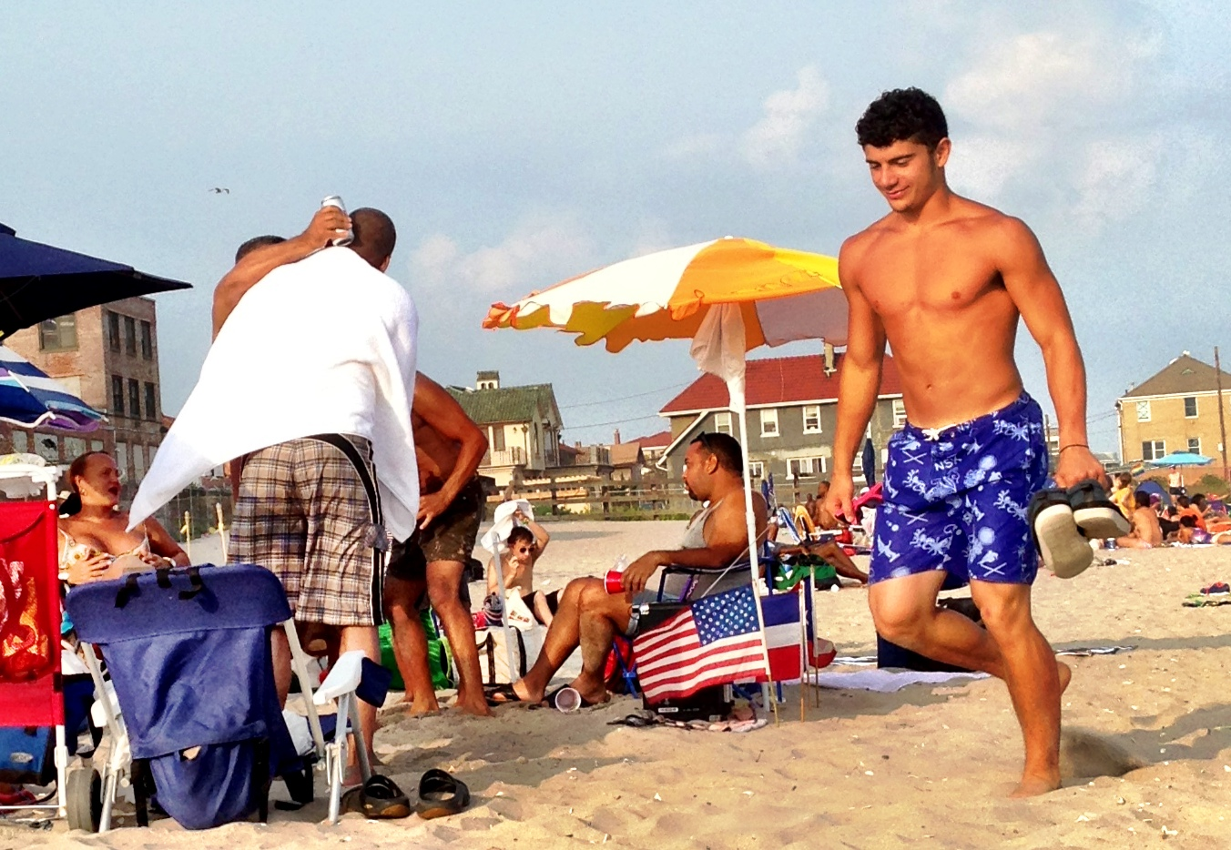 People on the beach at New York City's Jacob Riis Park in the Gateway National Recreation Area over Labor Day weekend.